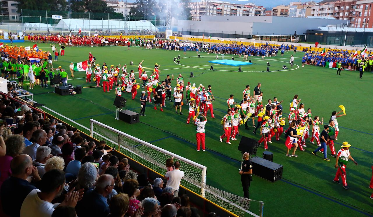 Opening Ceremony of the CSIT World Sports Games in Tortosa, 2019-07-02